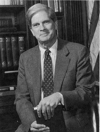 Librarian of Congress James Hadley Billington